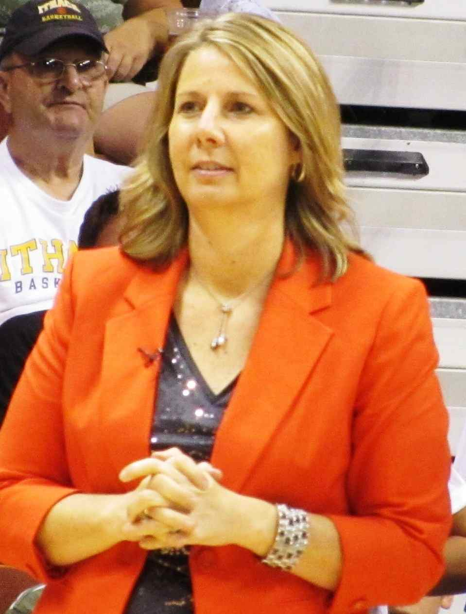 Cheryl Reeve at 2013 WNBA All-Star game at Mohegan Sun 27 July 2013